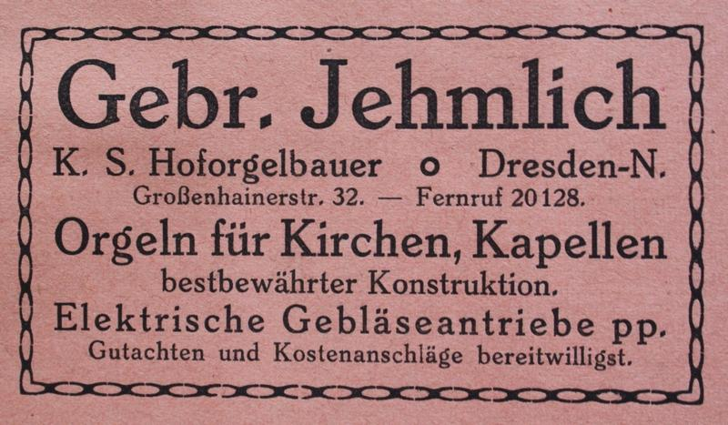 Advertisement of Jehmlich Organ Builder